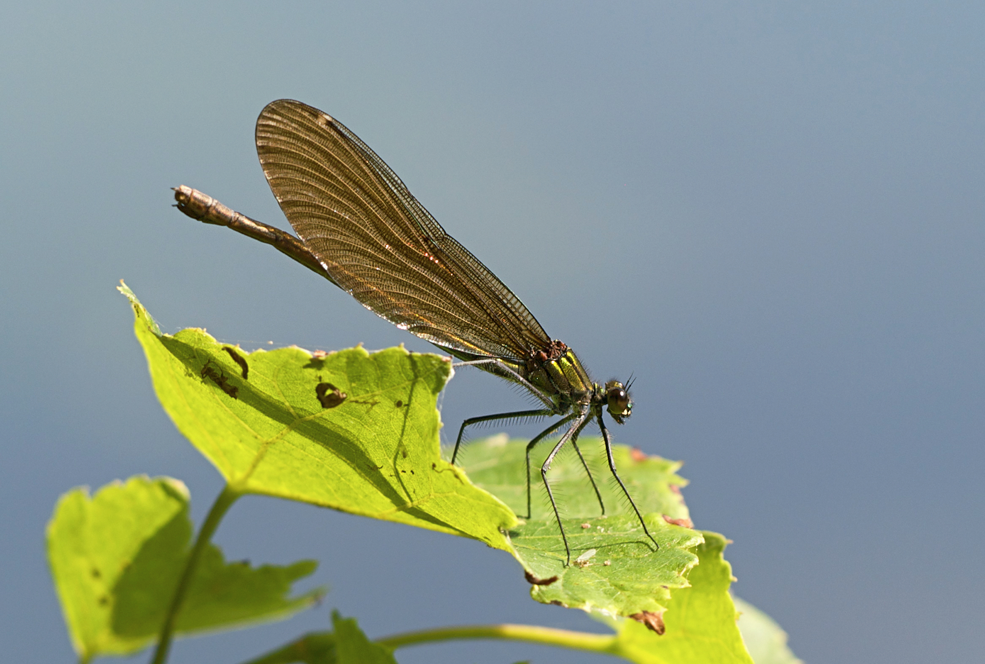 Female Banded Demoiselle (Calopteryx splendens), Chemnitz, Germany